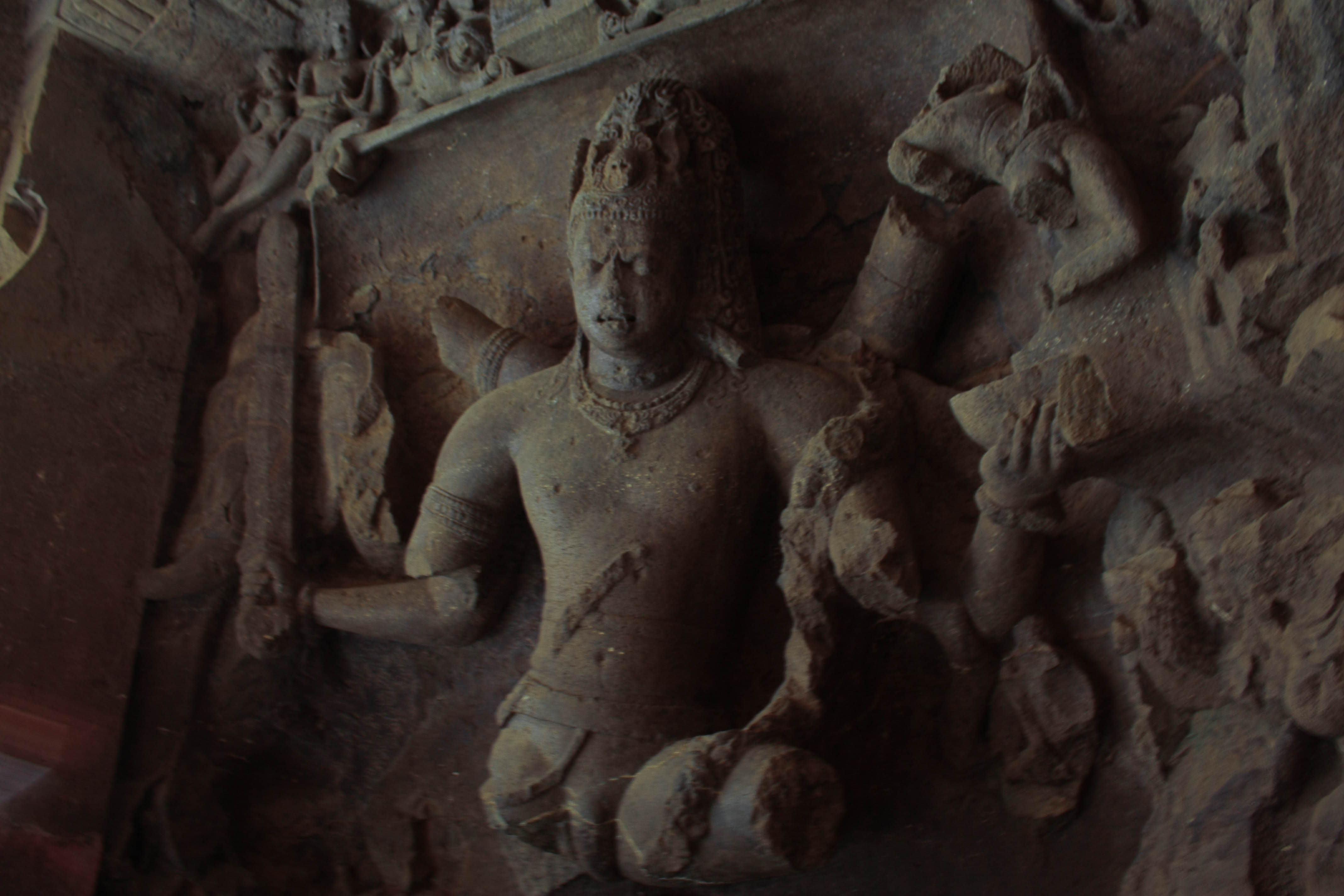 Bhairava. Elephanta Caves